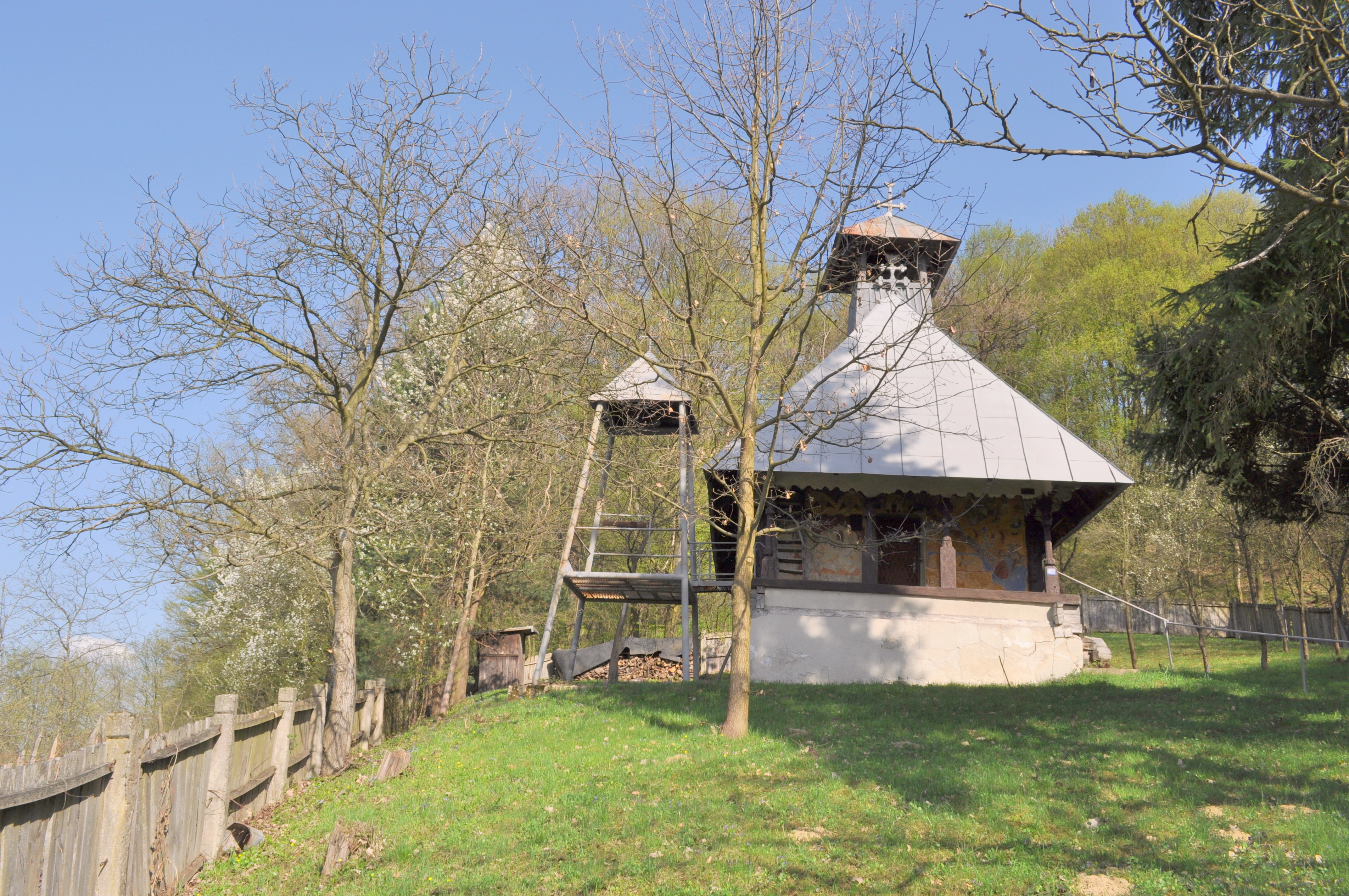 Wooden church in Cârbești, Gorj county, Romania